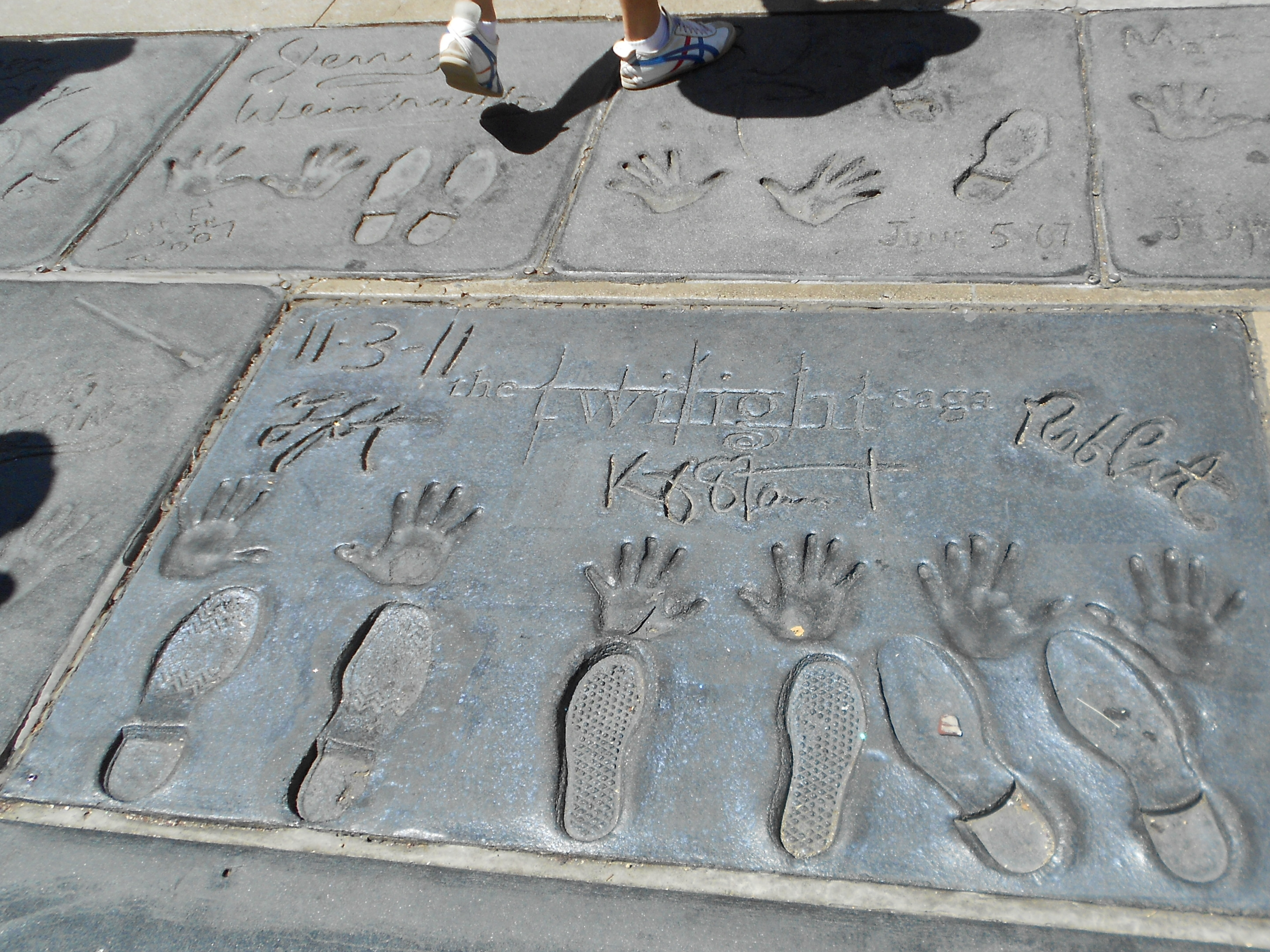 Twilight cast imprints at Grauman's Chinese Theater